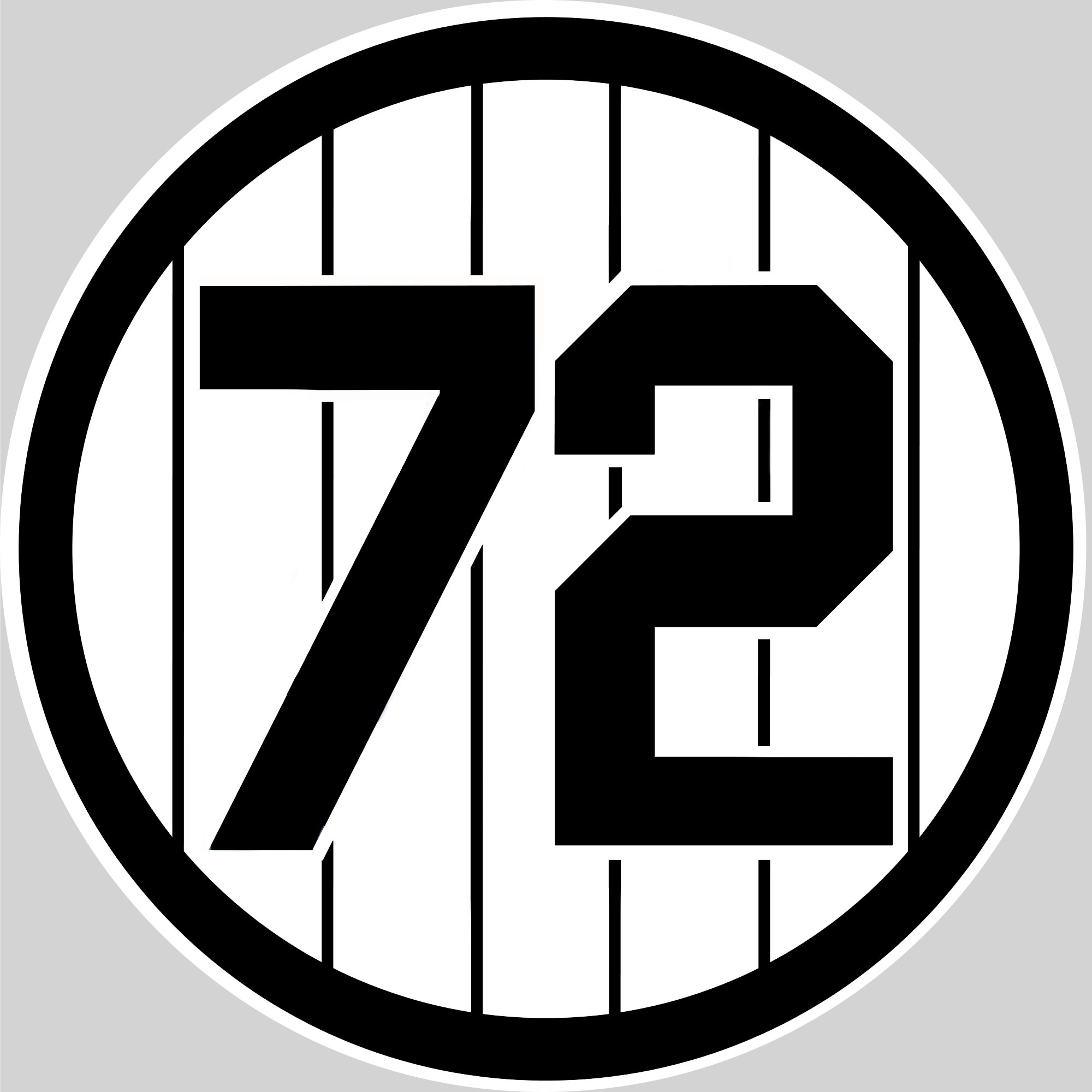 Image made for use in illustrating the retired number of Carlton Fisk